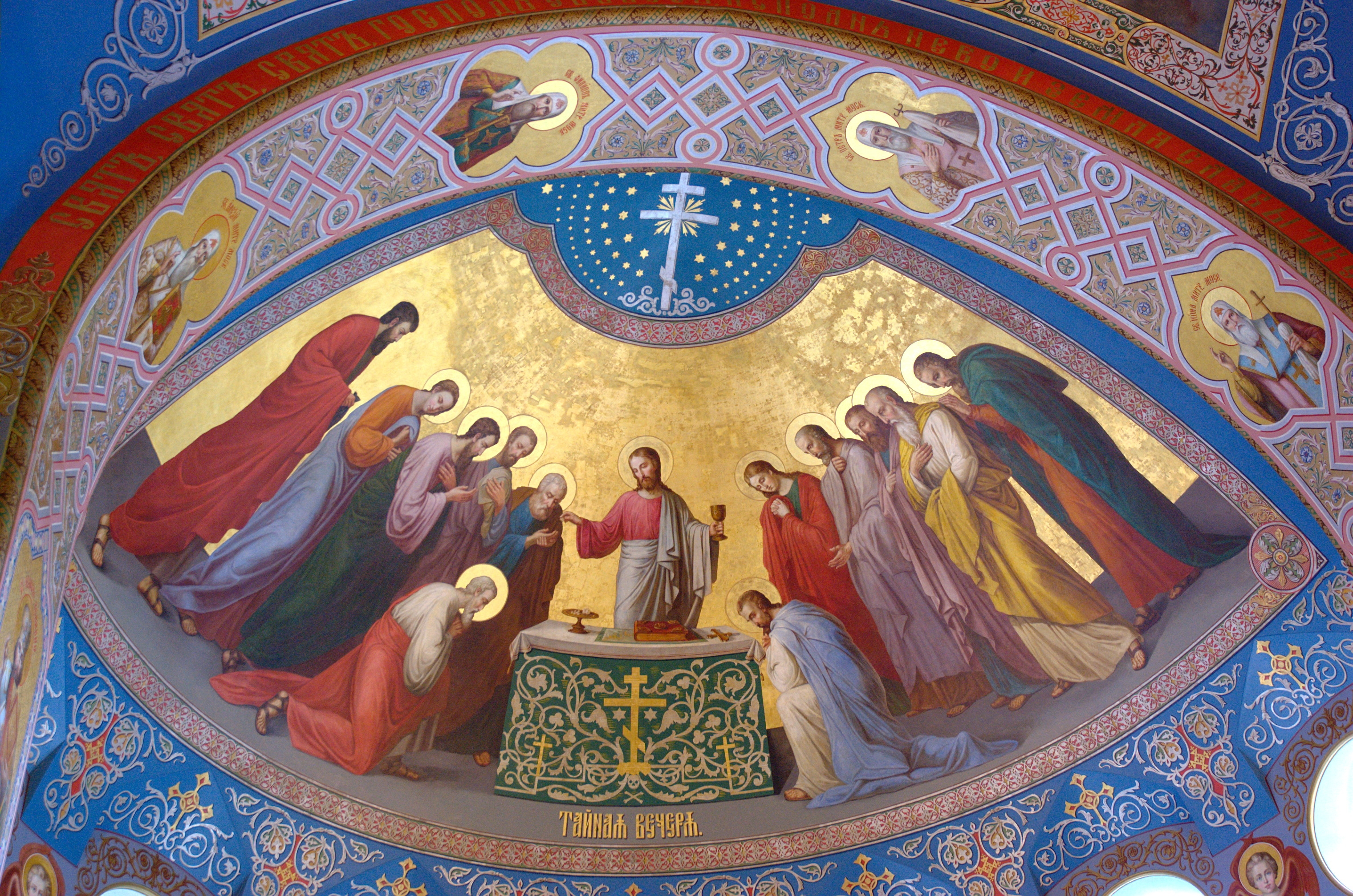 The Lord's Supper. Christ standing at an Orthodox altar, giving the Eucharist to the Twelve Apostles. Frescoes in the upper church of Spaso-Preobrazhenski cathedral. Valaam Monastery (Karelia).